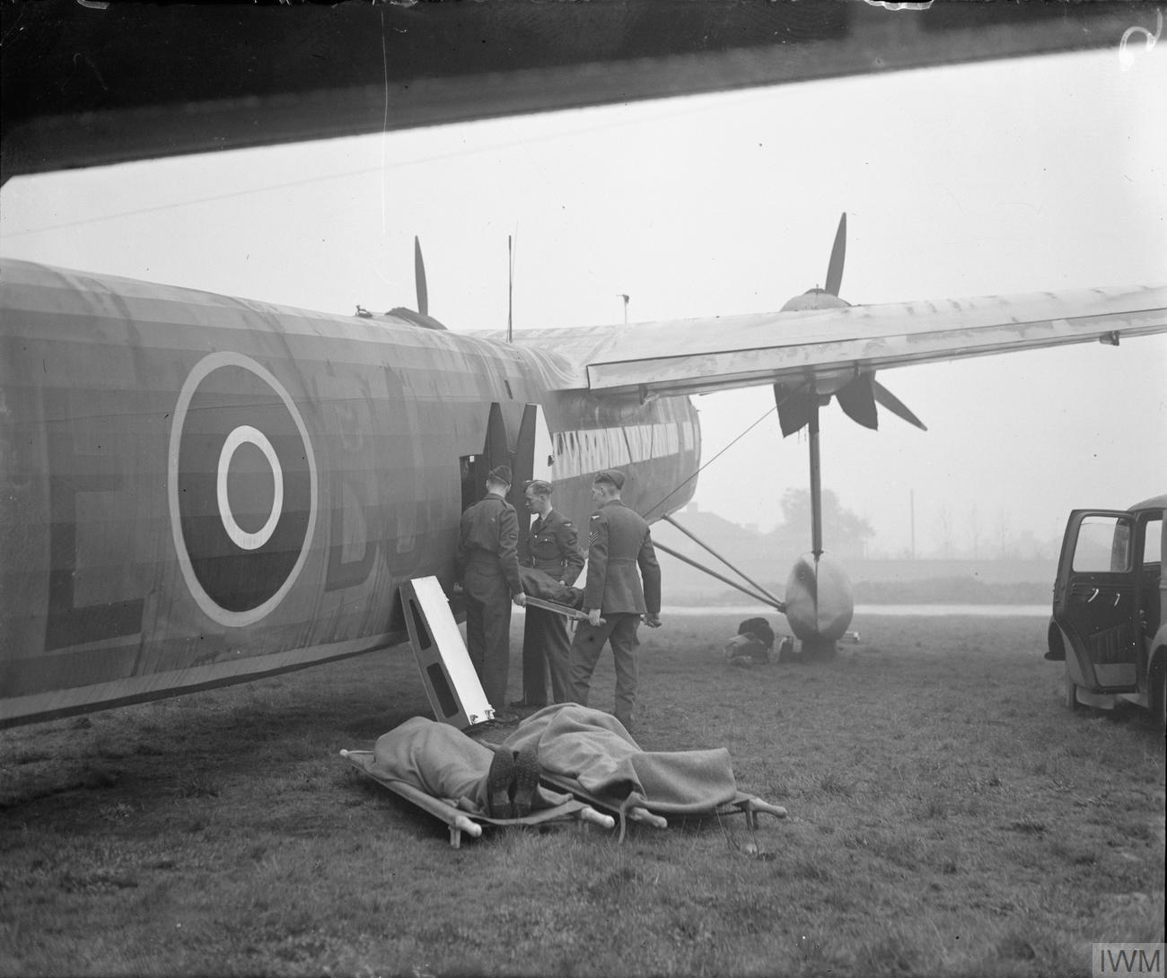 Royal Air Force Transport Command, 1943-1945. Medical orderlies loading stretcher cases into Handley Page Harrow Transport (“Sparrow”) ambulance aircraft, K6984 ‘BJ-E’, of No. 271 Squadron RAF Detachment at Hendon, Middlesex.